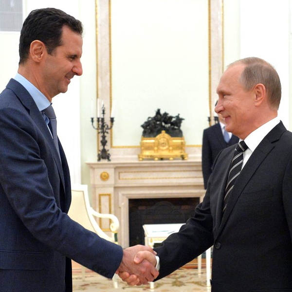 President Bashar al-Assad of Syria and President Vladimir Putin of Russia met in Moscow to discuss the military operations in Syria.